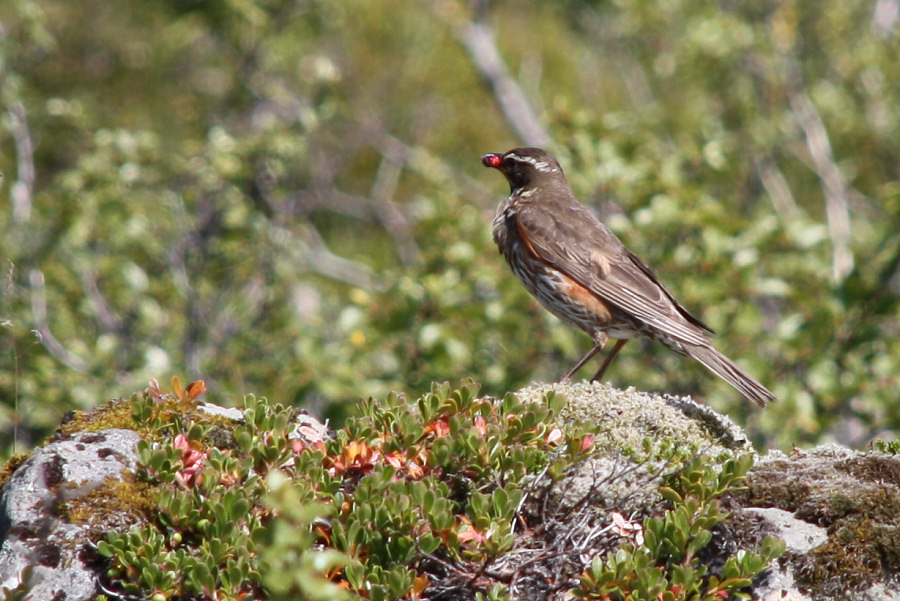 Redwing (Turdus iliacus) in Glymur area, Iceland.